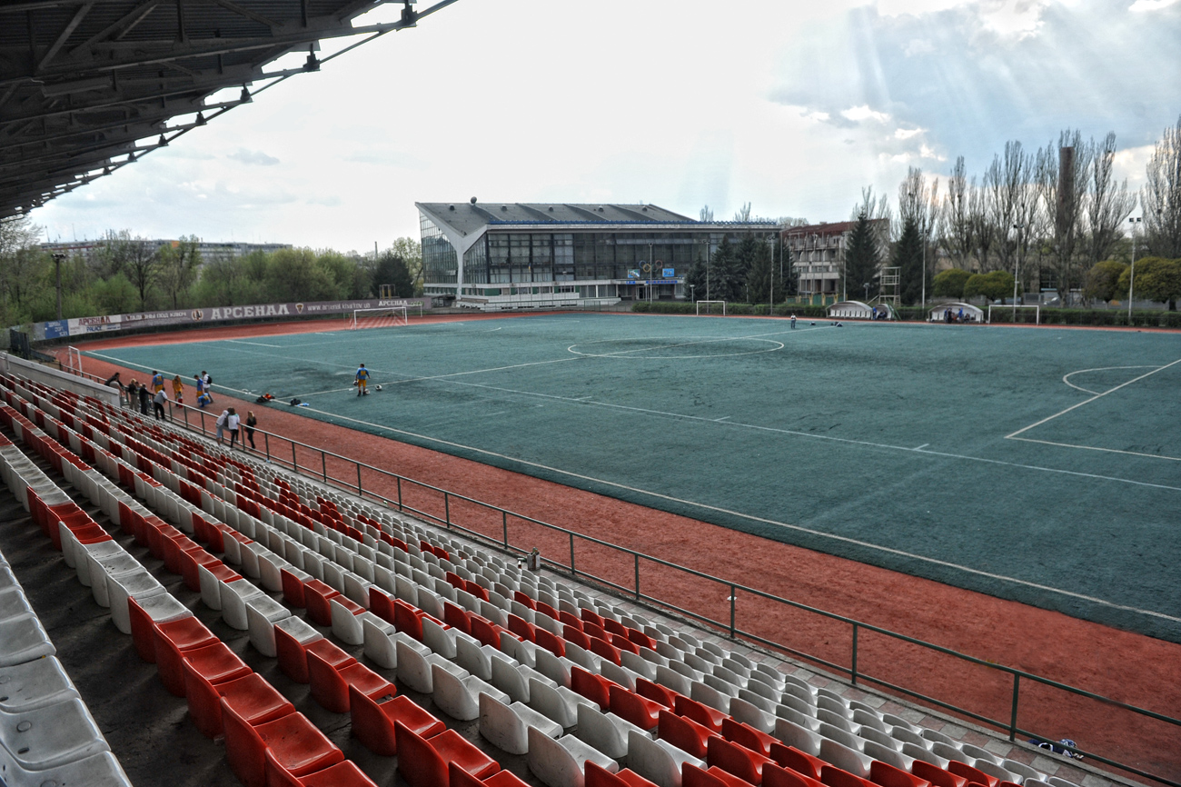 Arsenal-Spartak Stadium in Kharkiv, Ukraine